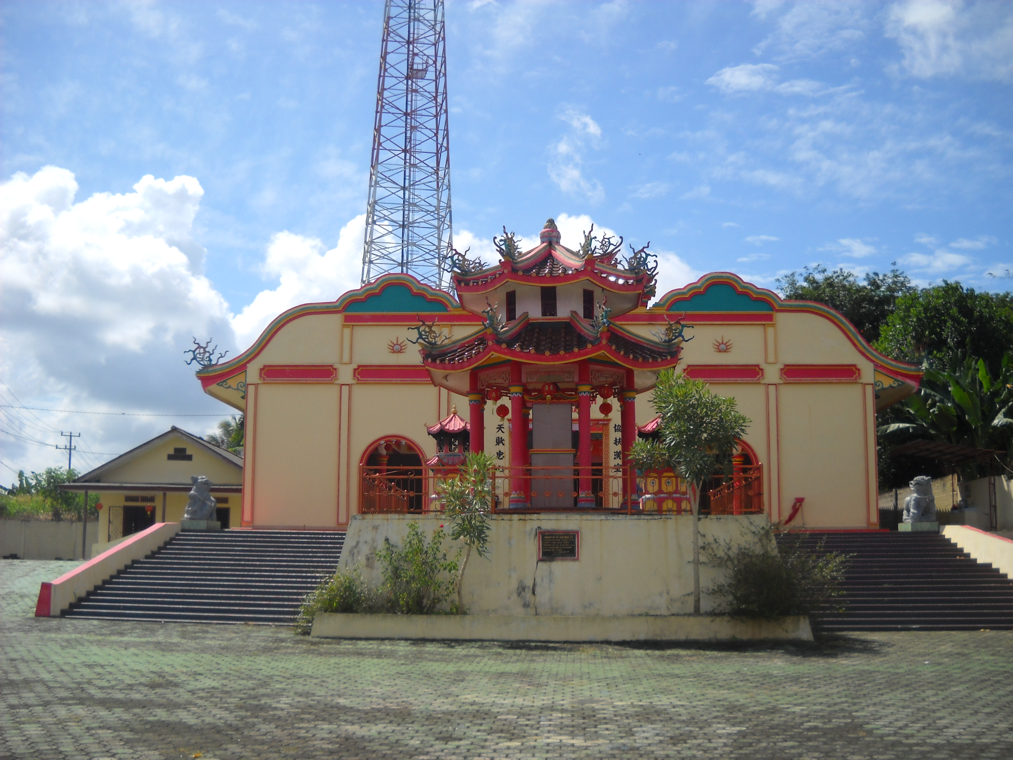 Kwanti Temple, Baturusa, Bangka Island.